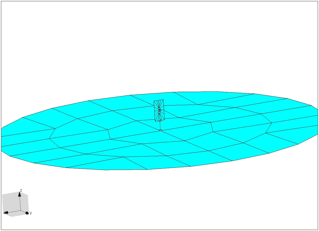 Model of the Dual Band Blade Antenna for 460MHz and L1